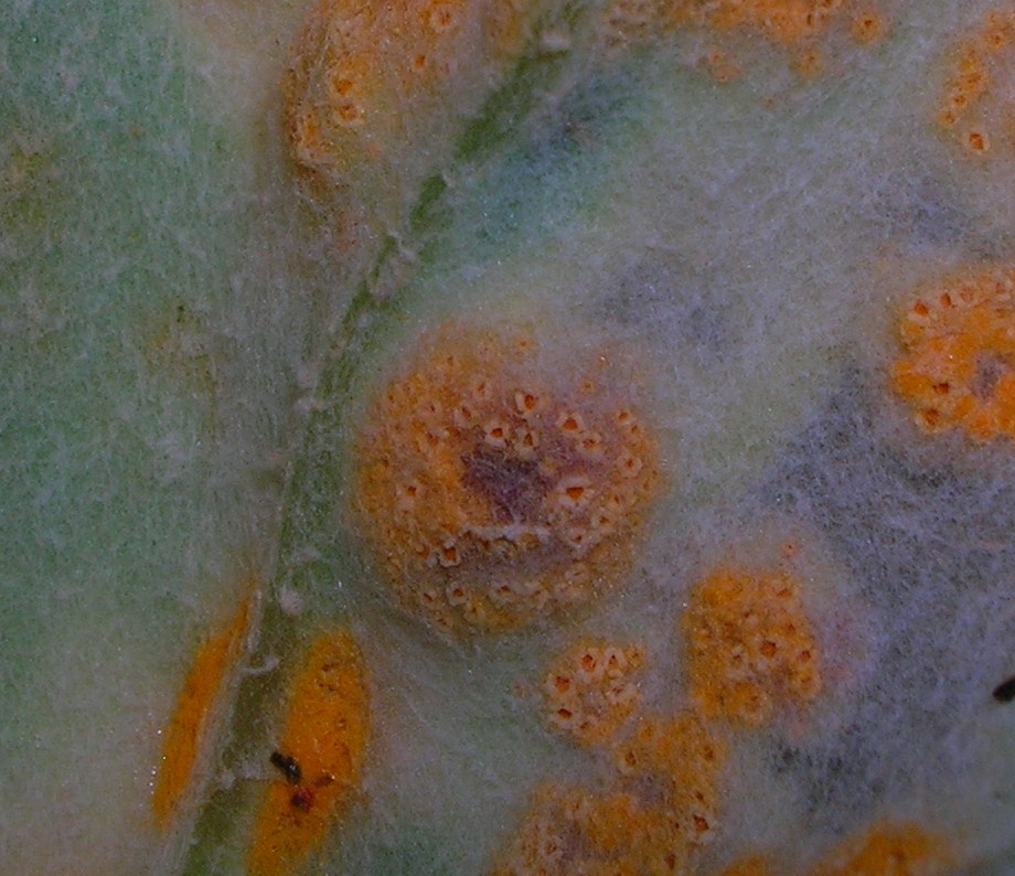 Puccinia poarum on lower epidermis of Tussilago farfara. Lynn Glen, Dalry, Scotland.